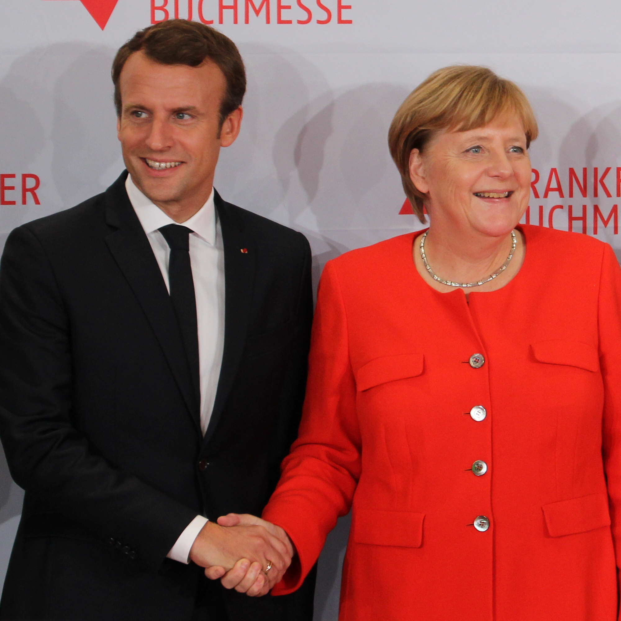 Emmanuel Macron and Angela Merkel (Frankfurter Buchmesse 2017)